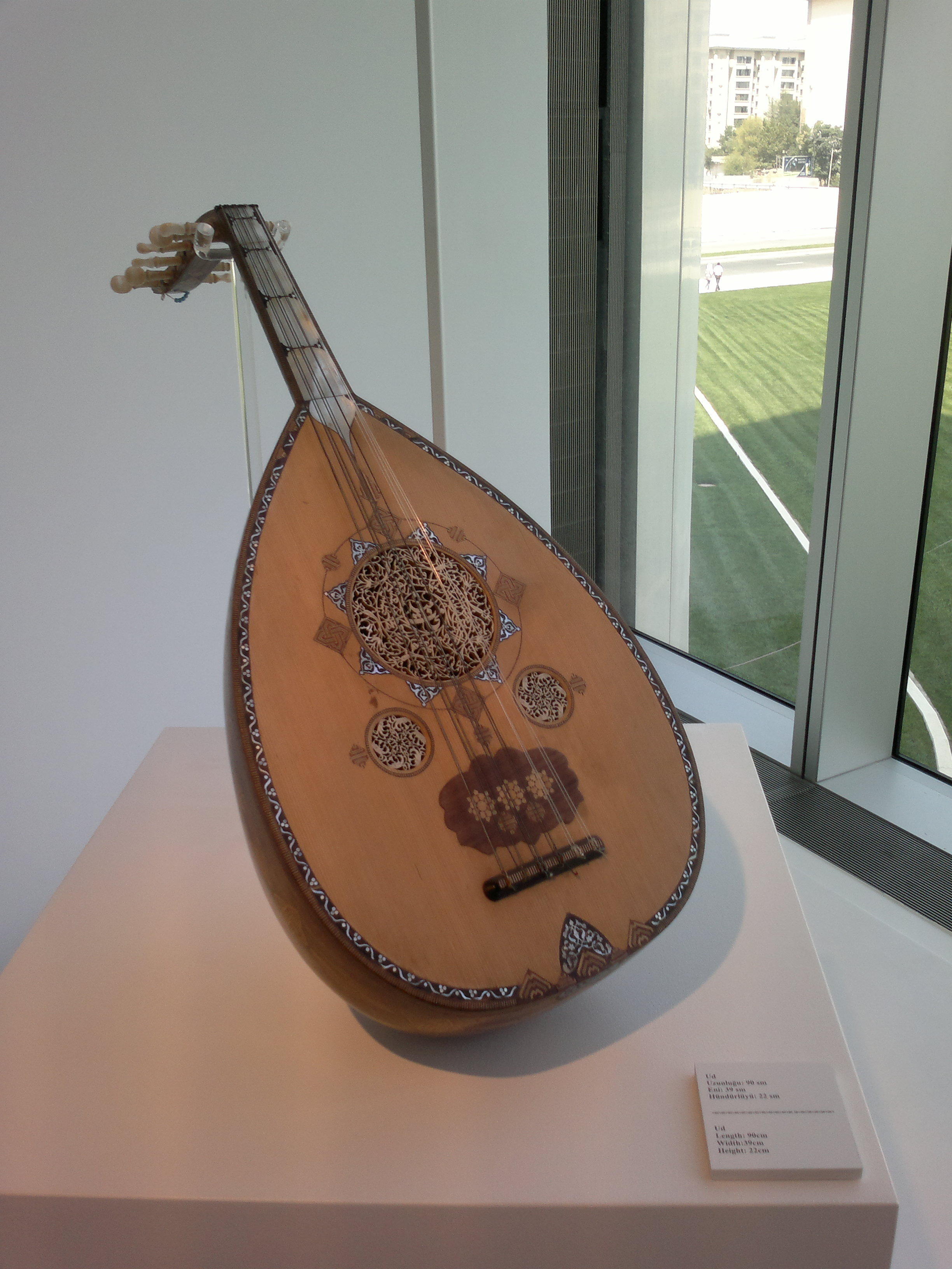 Azerbaijani musical instrument ud in Heydar Aliyev Center